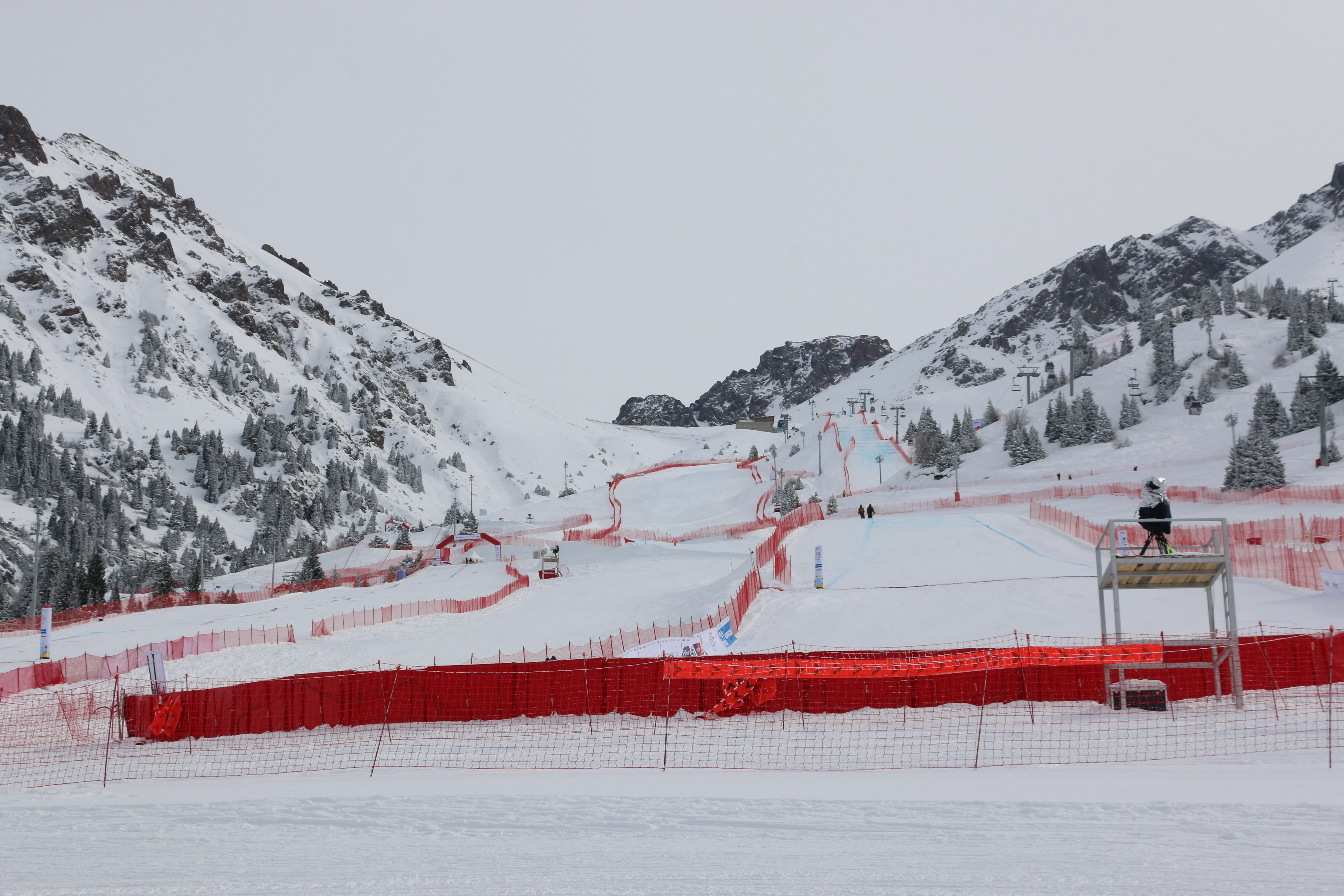 Universiade 2017. Shymbulak